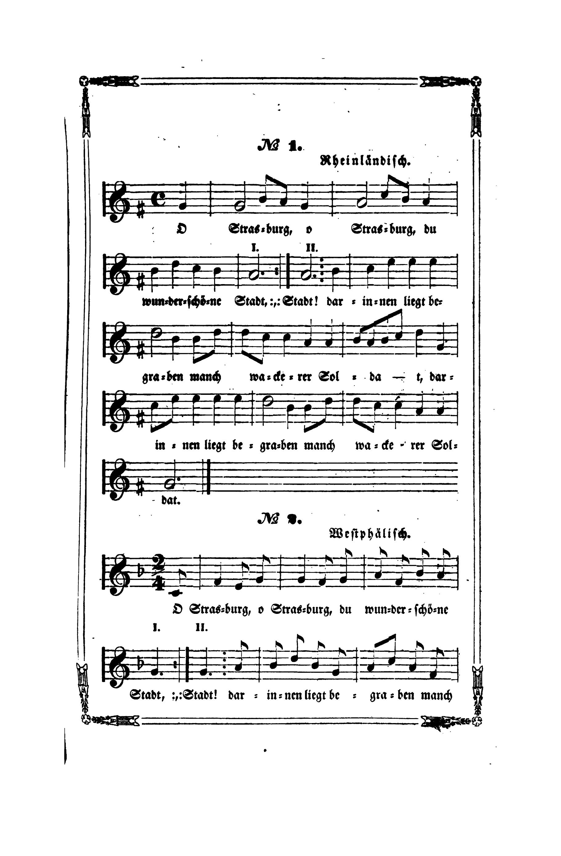 This is a scan of the historical document